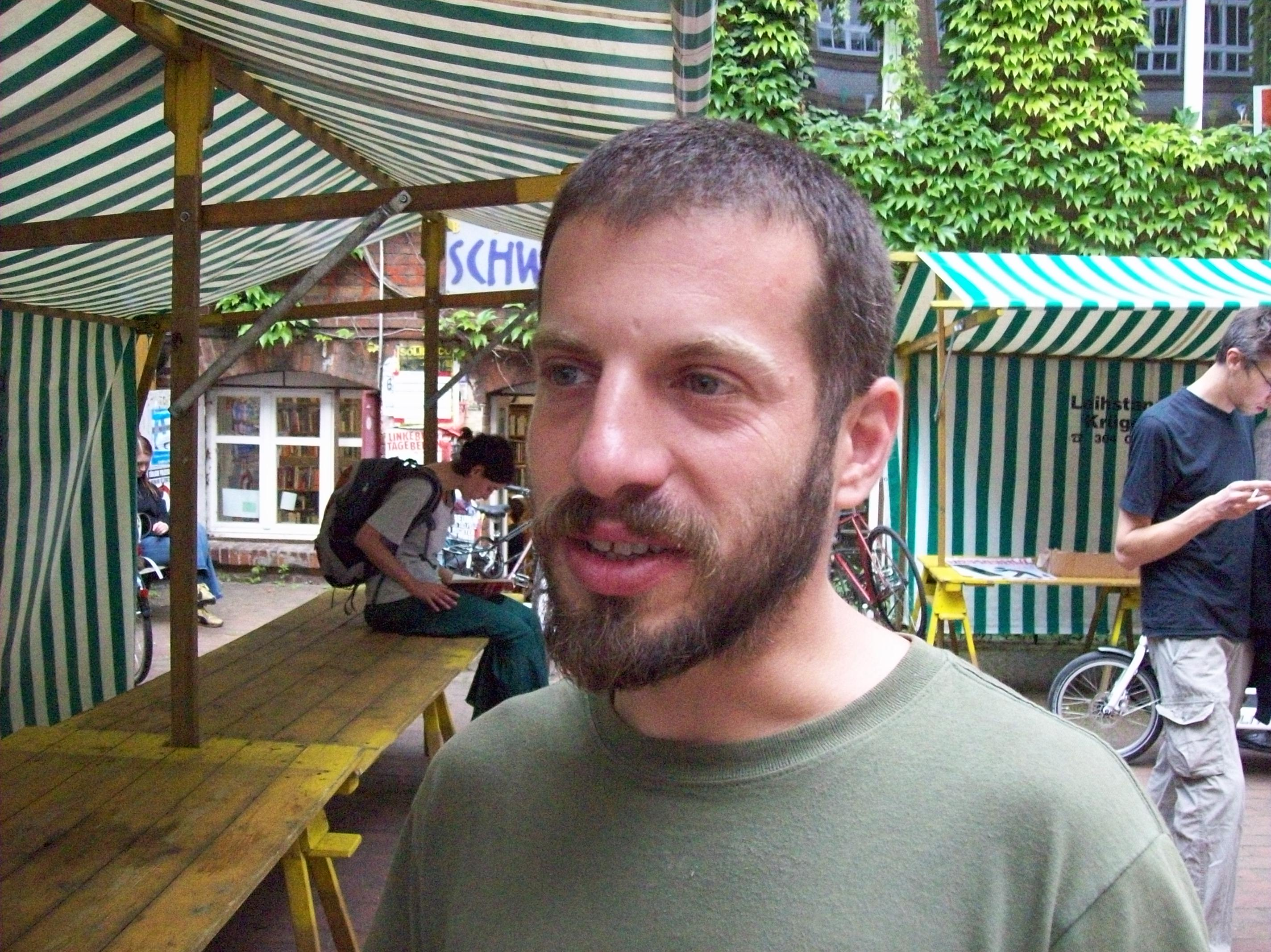 Uri Gordon at the Mehringhof in Berlin.